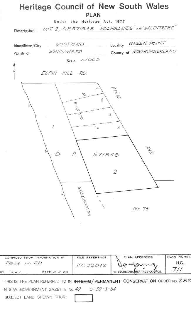 Mulholland's Farm: PCO Plan Number 289